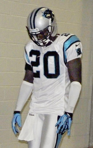 Staff Sgt. Ray Santiago of Fort Benning's Ranger Training Brigade watches the Carolina Panthers as prepare to take the field in the tunnel of the Georgia Dome. The Atlanta Falcons and the Home Depot honored Santiago as their Hometown Hero at the Sept. 30 game against the Carolina Panthers.